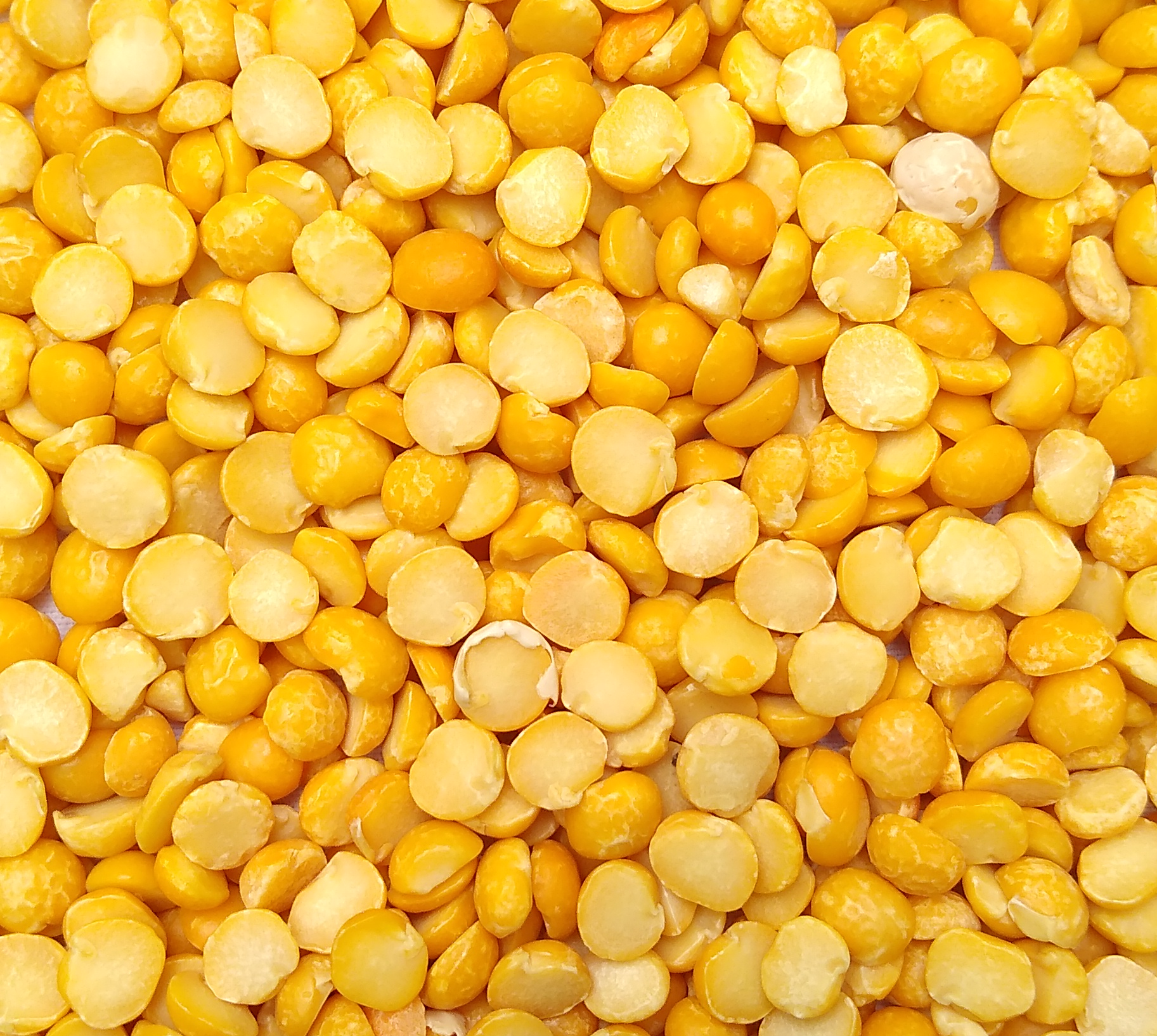 Dry Goya yellow split peas.